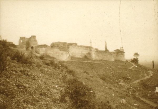 The fortress of Prizren, 1905.